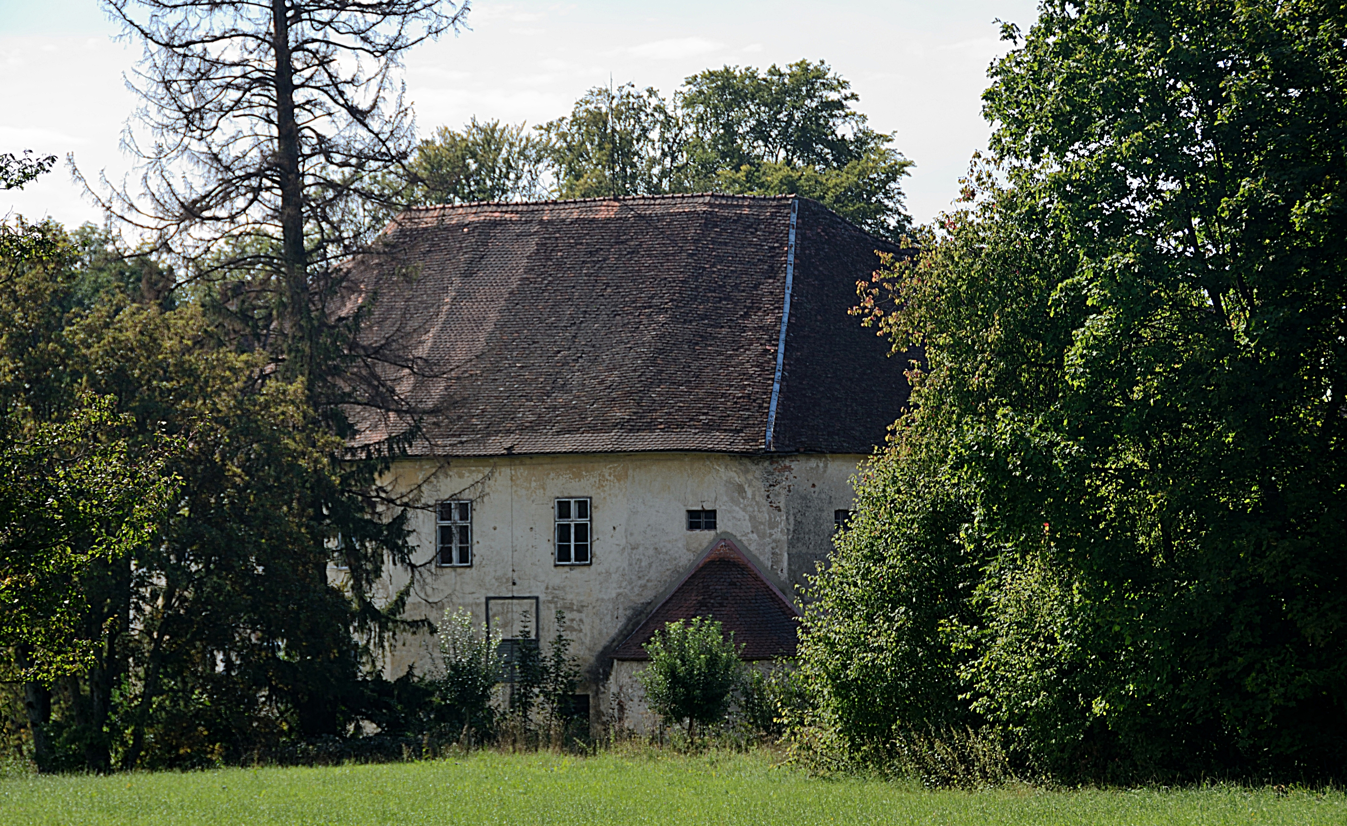 Rear side of castle Reitenau in Stambach, Styria.